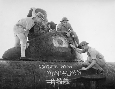 Sourced from: Copyright: The AWM record for this photo states that the copyright status is 'clear'. The photo was taken in 1945. AWM Caption: Azuma Peninsula, Tokyo Bay. September 1945. At the Japanese Arsenal, crew members of HMAS Napier, Able Seaman (AB) Les Coad of Ballarat, Vic, and AB Kevin Sorrenson of Coorparoo, Qld, watch Petty Officer (PO) Allan Mole of Mitcham, SA, chalk a sign that reads "under new management.." on a Japanese midget submarine.